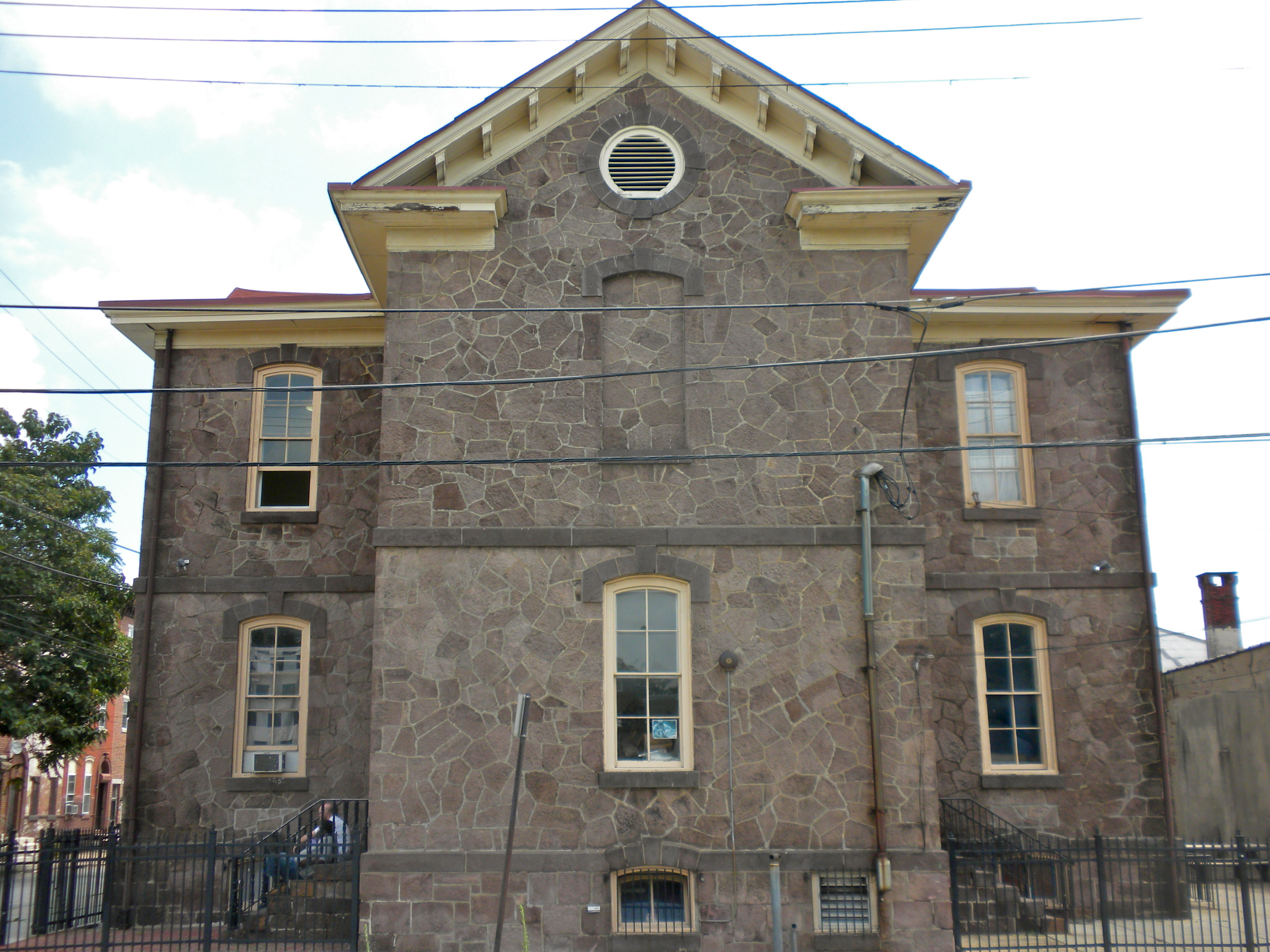 Muhlenberg School on the NRHP since November 18, 1988. At 1640 Master St., Philadelphia in the Cabot neighborhood of North Philly. Now used as a halfway house.